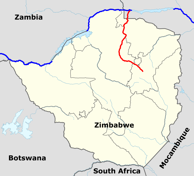 Hunyani River course in Zimbabwe. Zambezi blue, Hunyani red.